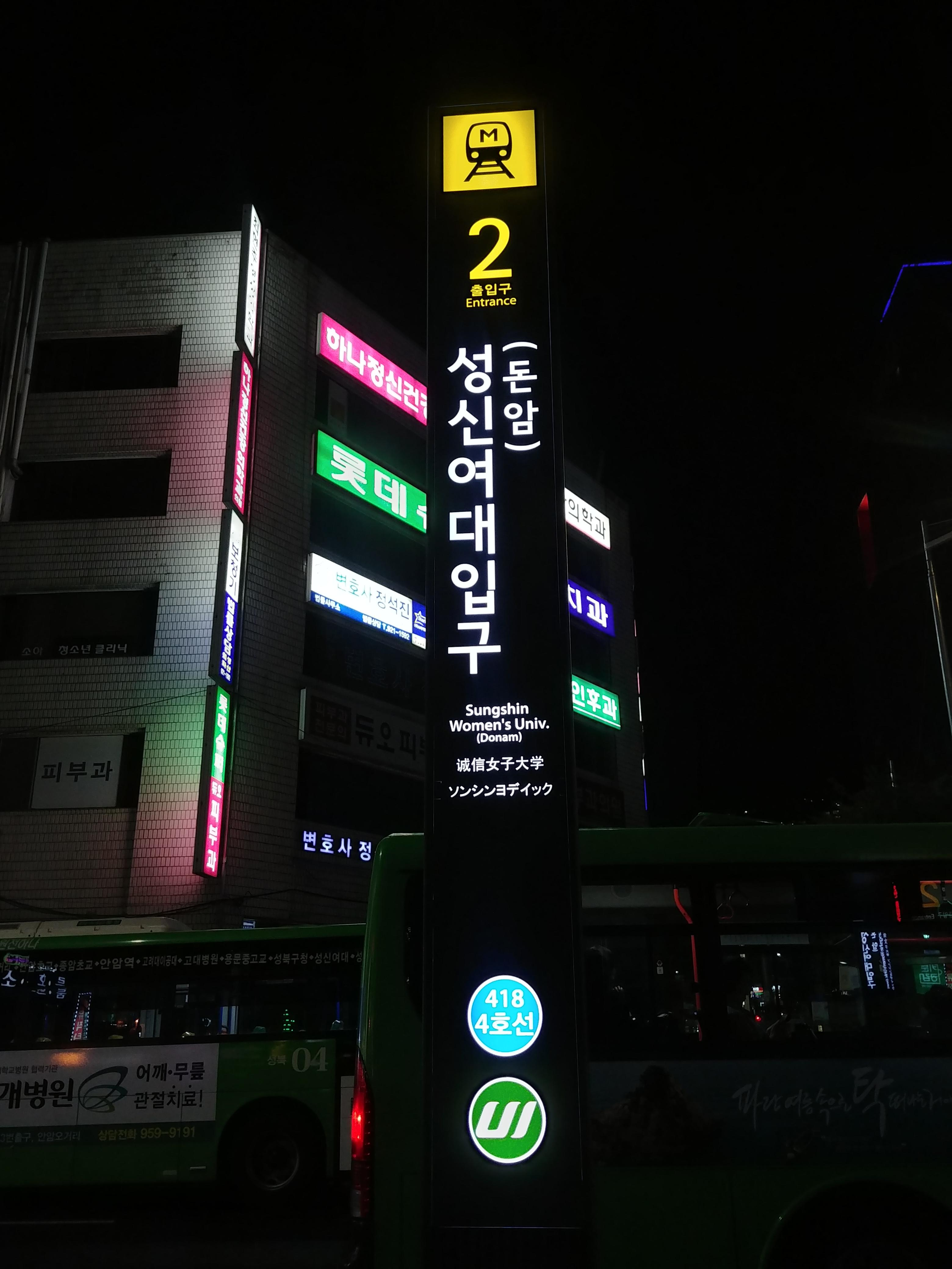 Seoul Subway Line 4, Ui LRT Sungshin Women's University Station Exit 2 Pole Sign